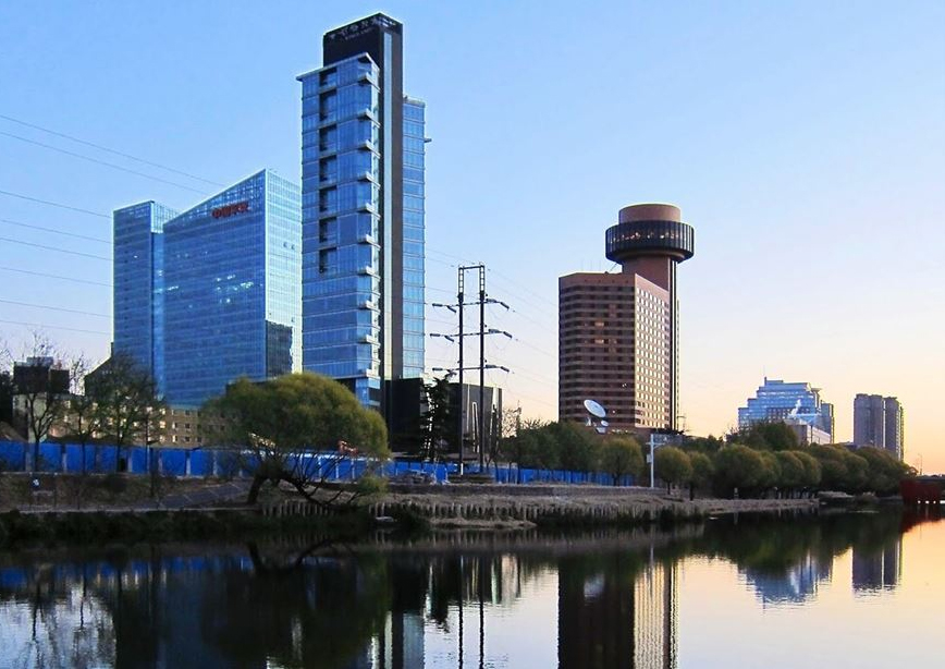 Kunlun Towers in Beijing by Enzo Eusebi